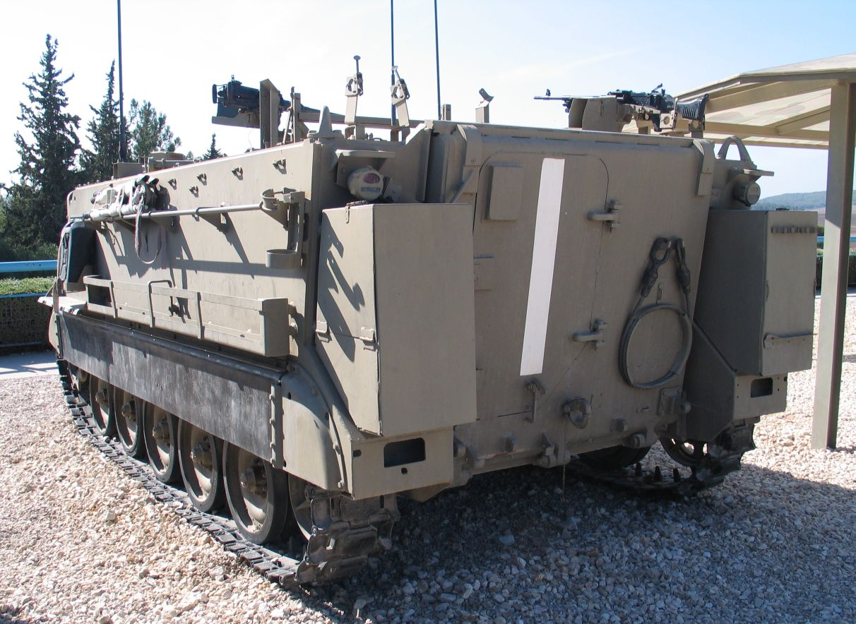 Description: M113A1 APC in Yad la-Shiryon Museum, Israel. Source: Photo by me, User:Bukvoed.